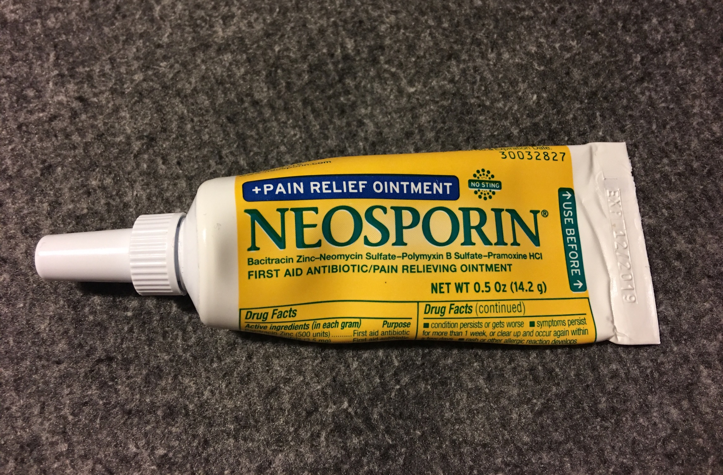 Neosporin